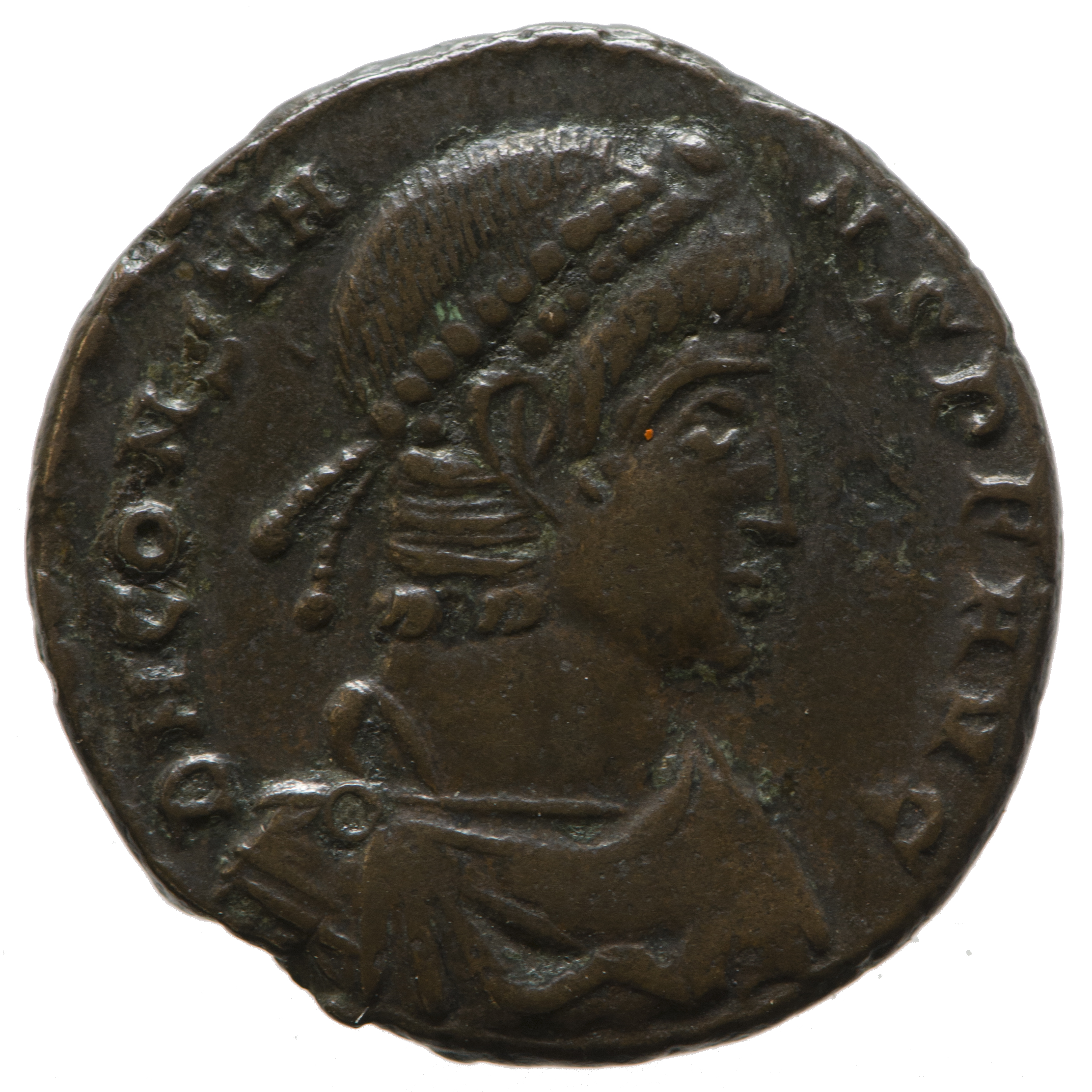 Obverse (front) of a nummus of w: Constans, showing head right, diademed, cuirassed, draped.